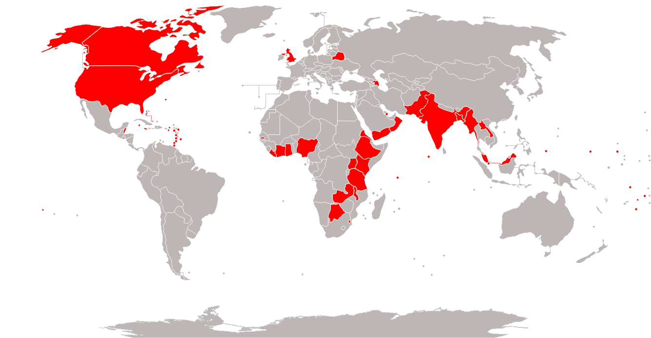 These are the countries around the world that use a FPTP system of voting.